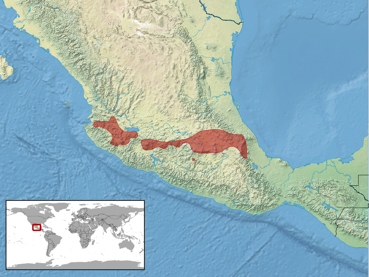 geographic distribution of Crotalus triseriatus (Native: Mexico)